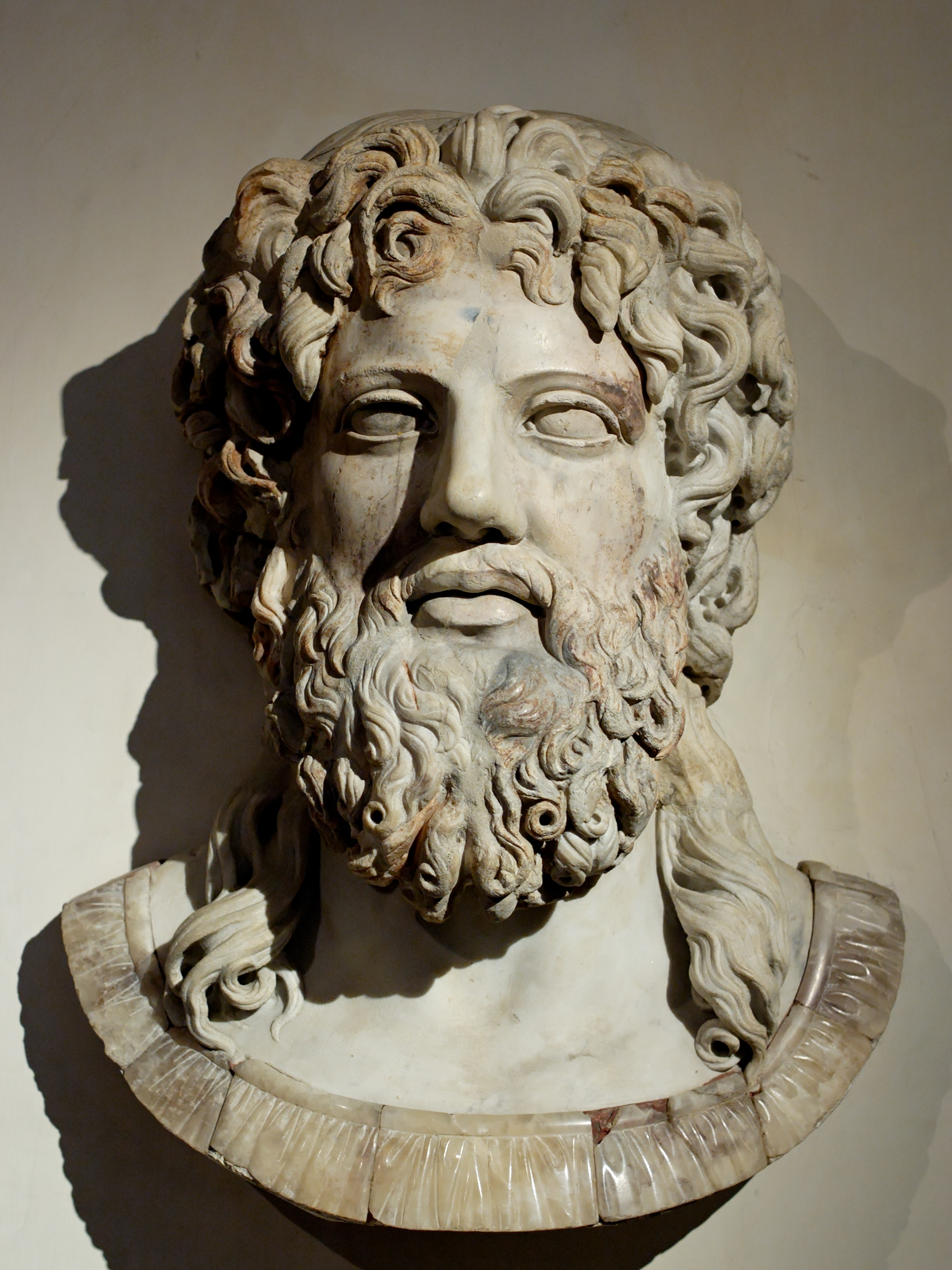 Relief of Zeus. Marble with red base (originally covered with gold leaf), Roman copy from the 2nd century CE after a Greek original from the 5th century BCE; several restorations (nose, lips, neck and part of the bust).